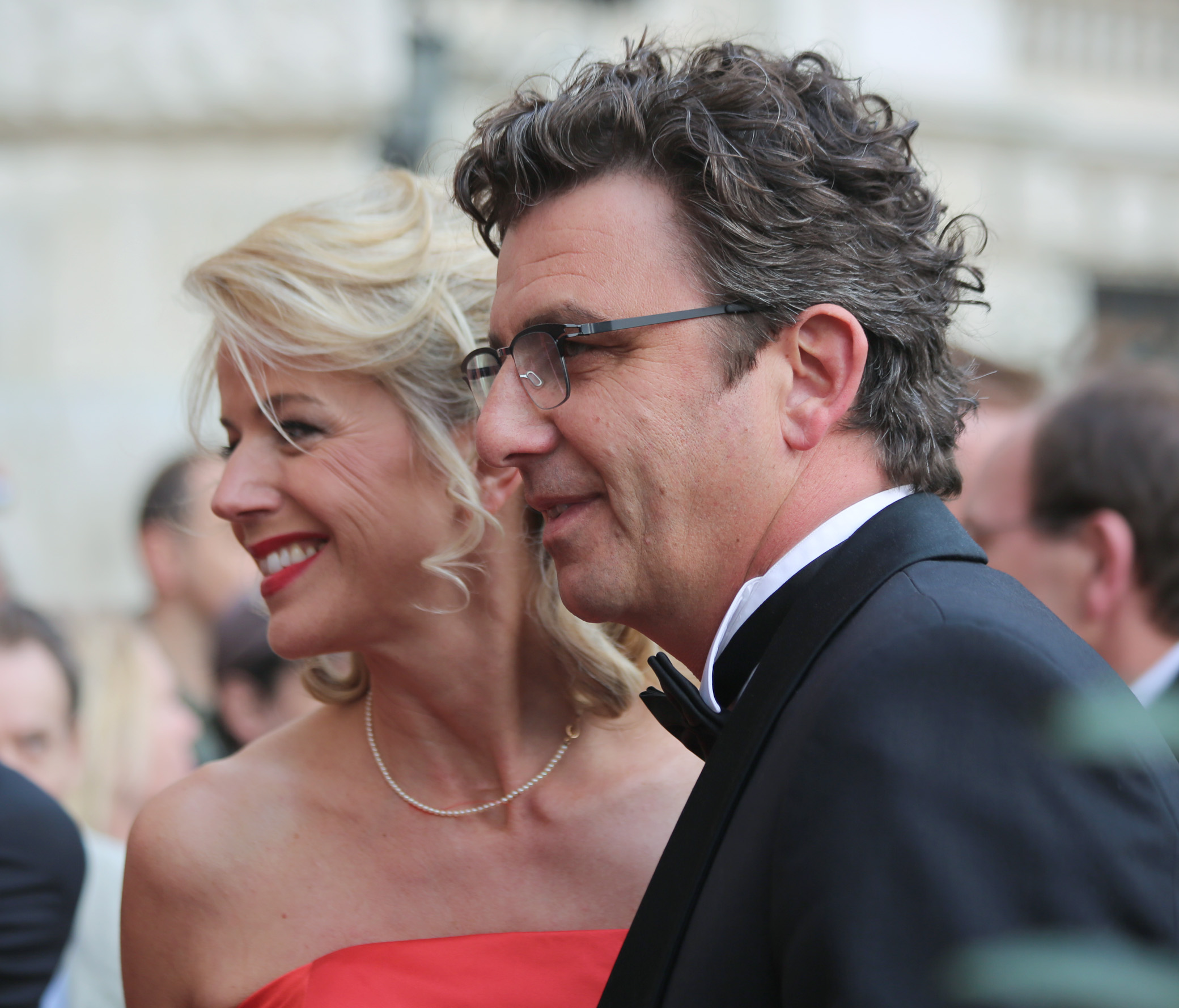 Hans Sigl and Susanne Sigl at the Romy film awards (Hofburg Imperial Palace in Vienna)